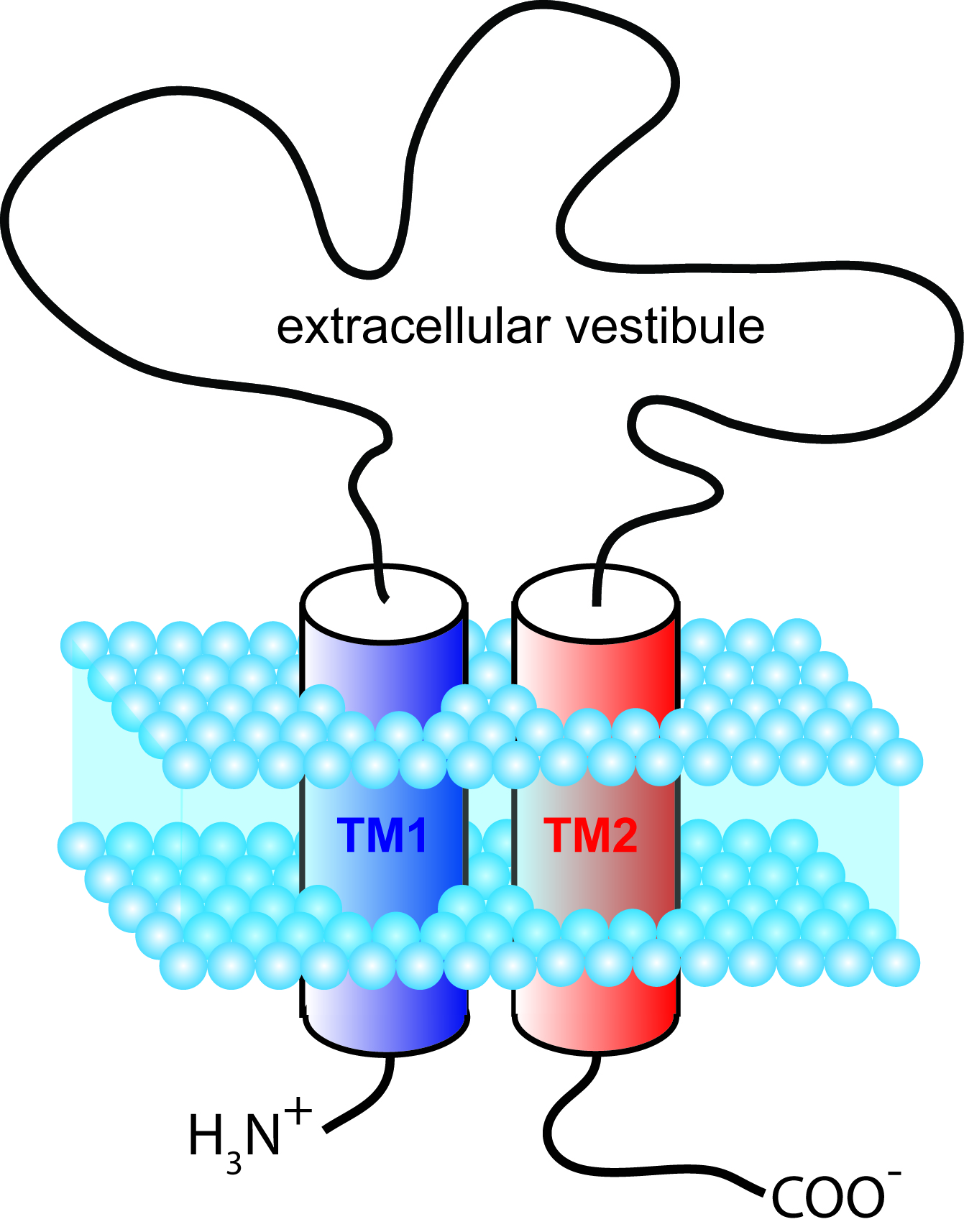 Schematic showing basic topology of a typical P2X receptor subunit associated with the plasma membrane.